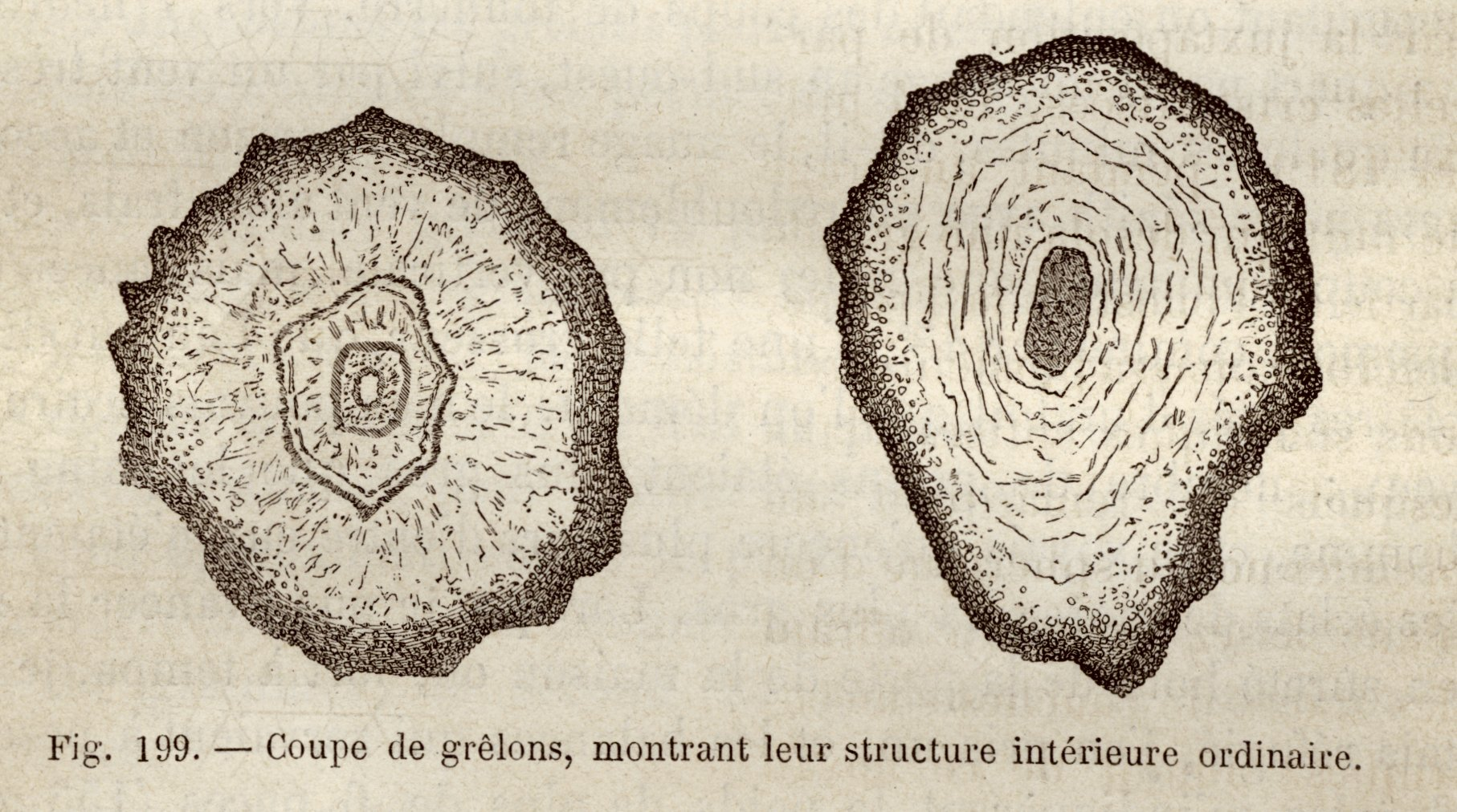 Cross-sections of large hail stones. In: L'Atmosphere by Camille Flammarion, 1872. Library Call No. M0030 F581a 1872.